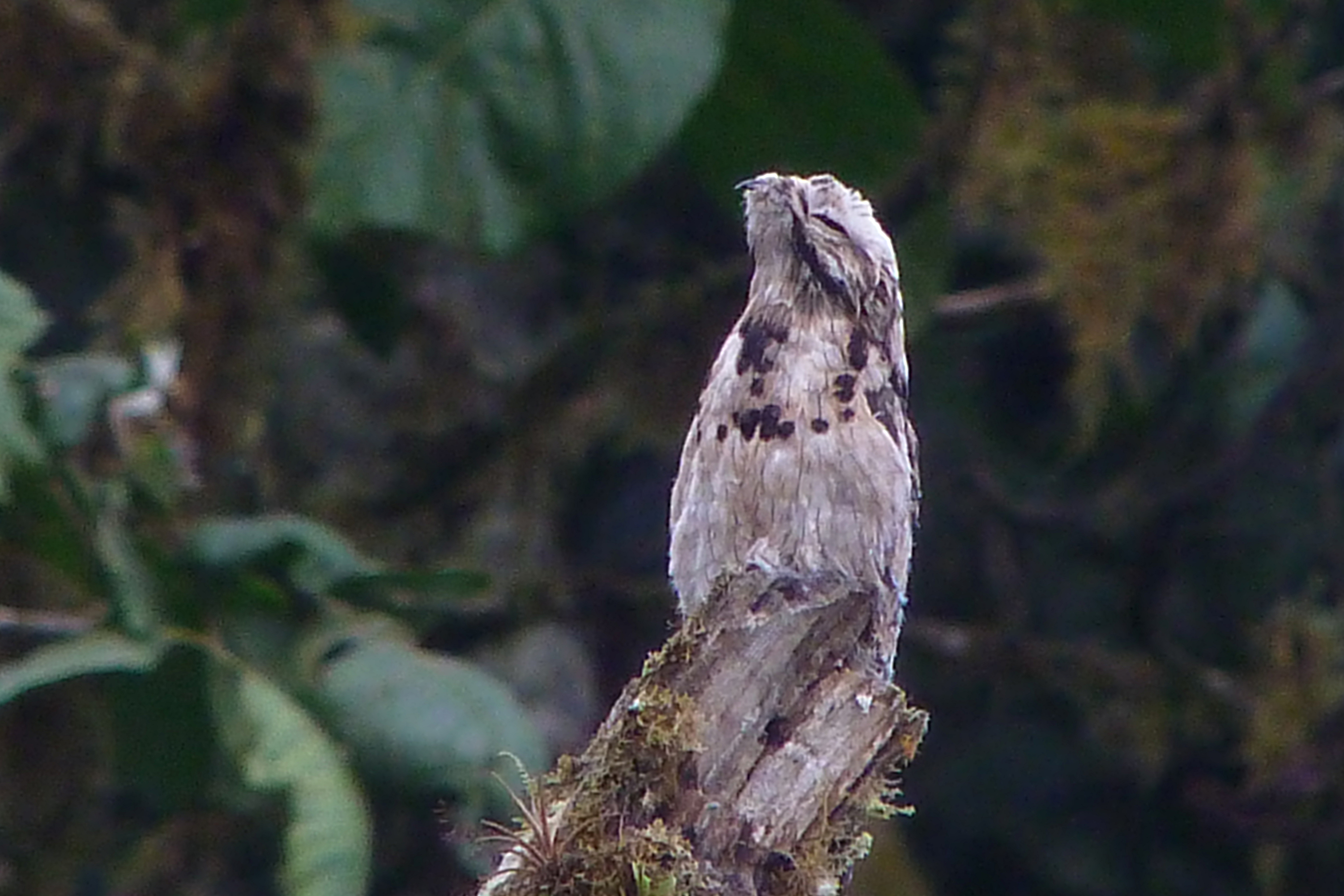 Common Potoo - digiscoped - 7 June 2015 - Mashpi Road, north of Los Bancos, Pichincha, Ecuador